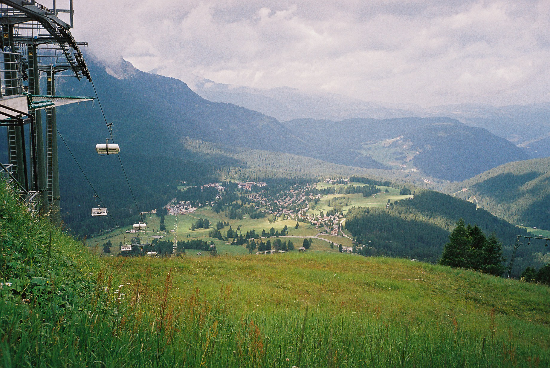 View of the 'frazione' of Karersee, Welschnofen, Province of Bolzano-Bozen, Trentino-Alto Adige/Südtirol, Italy